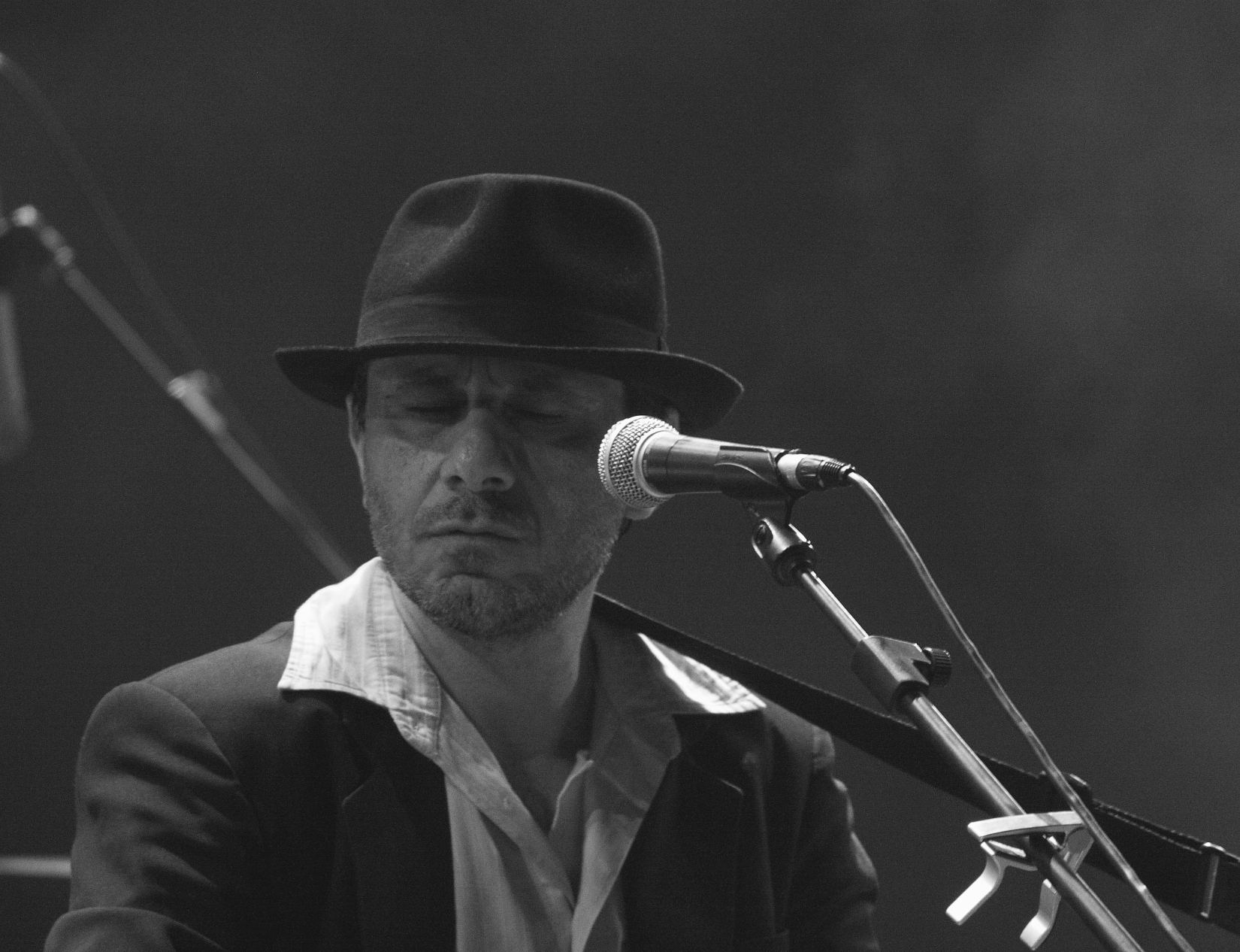 Meir Banai